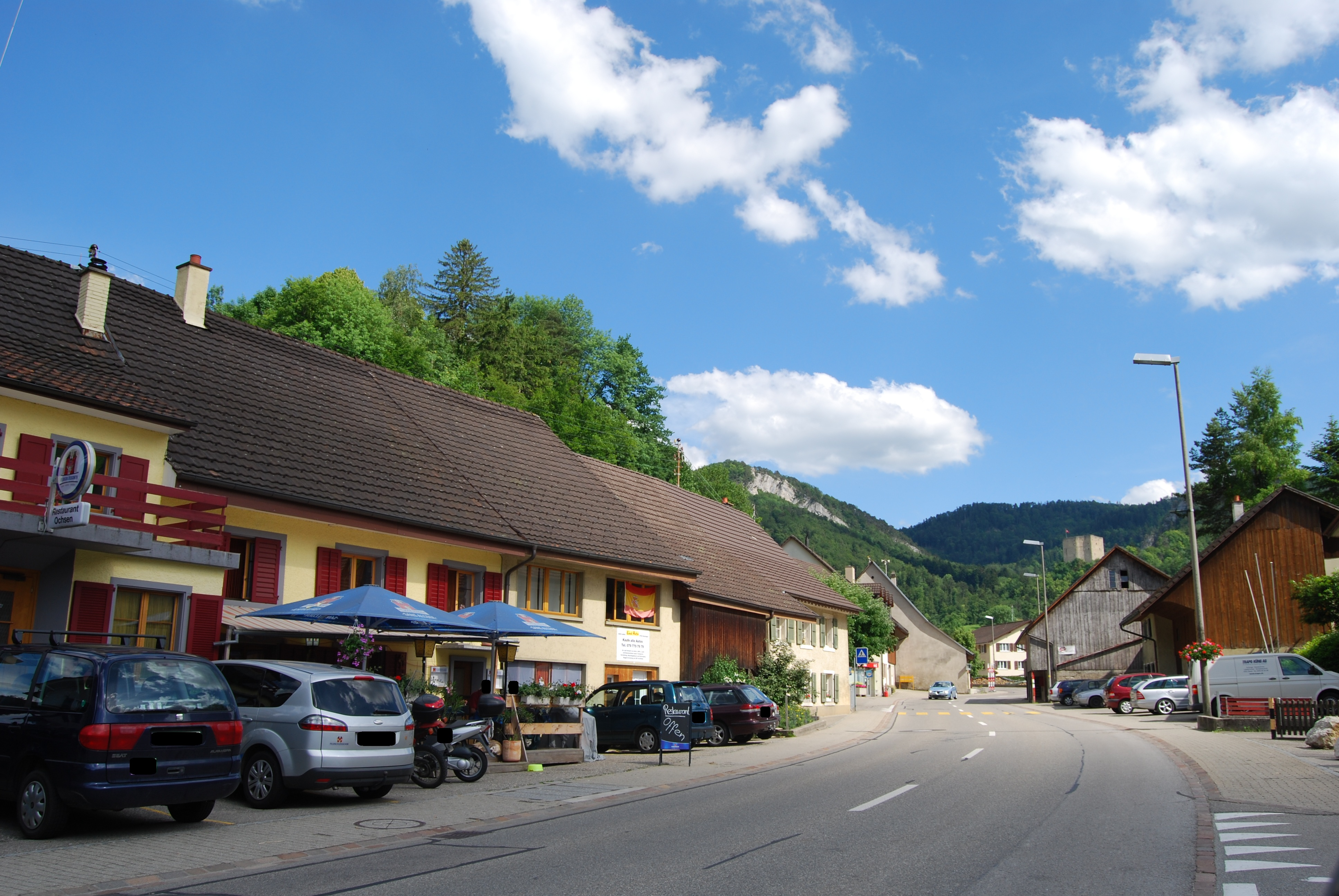 Zullwil, canton of Solothurn, Switzerland